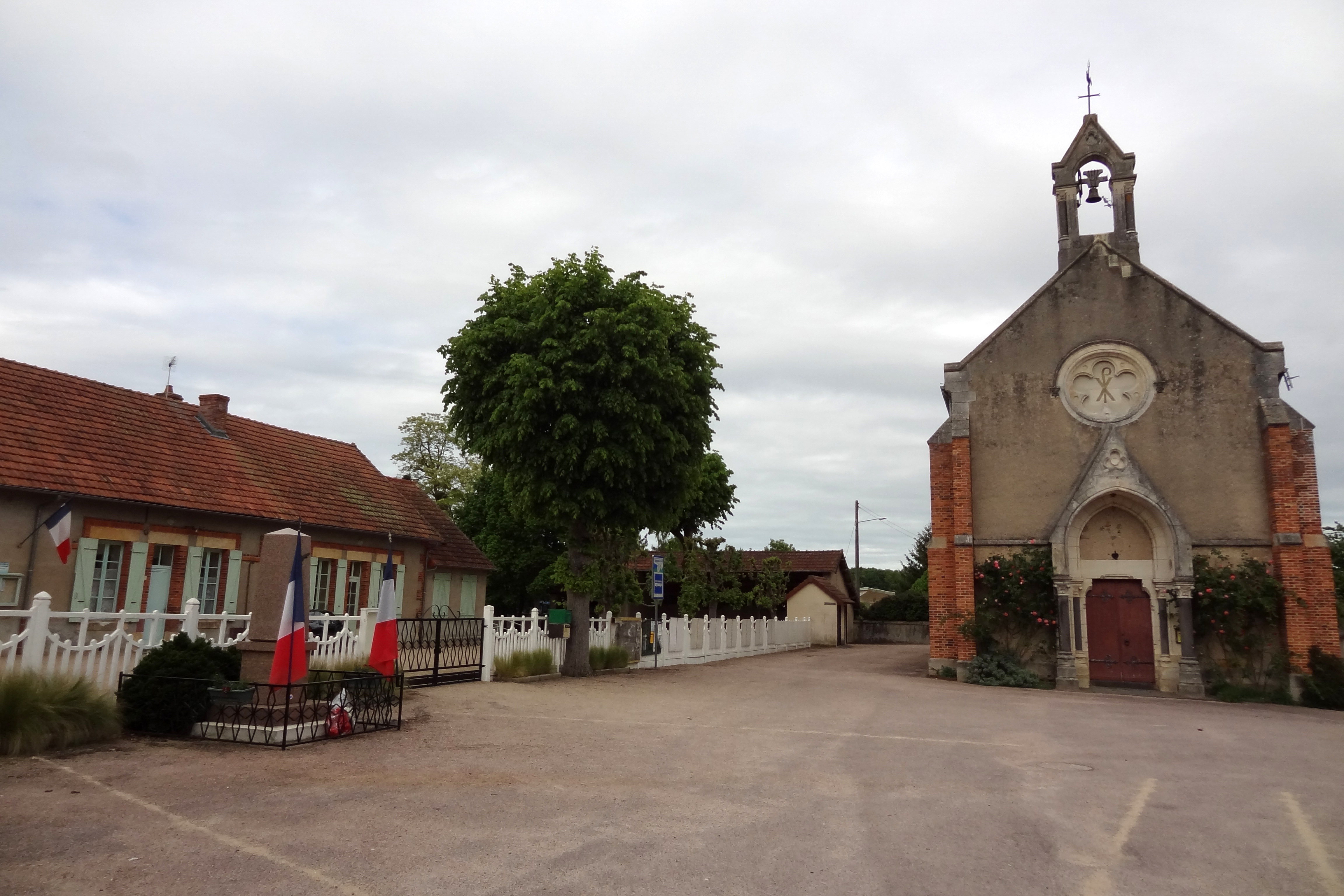 Town hall and Sainte-Anne church